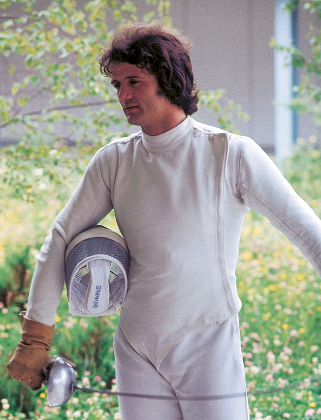 Nicola Granierin, 1972 Olympics